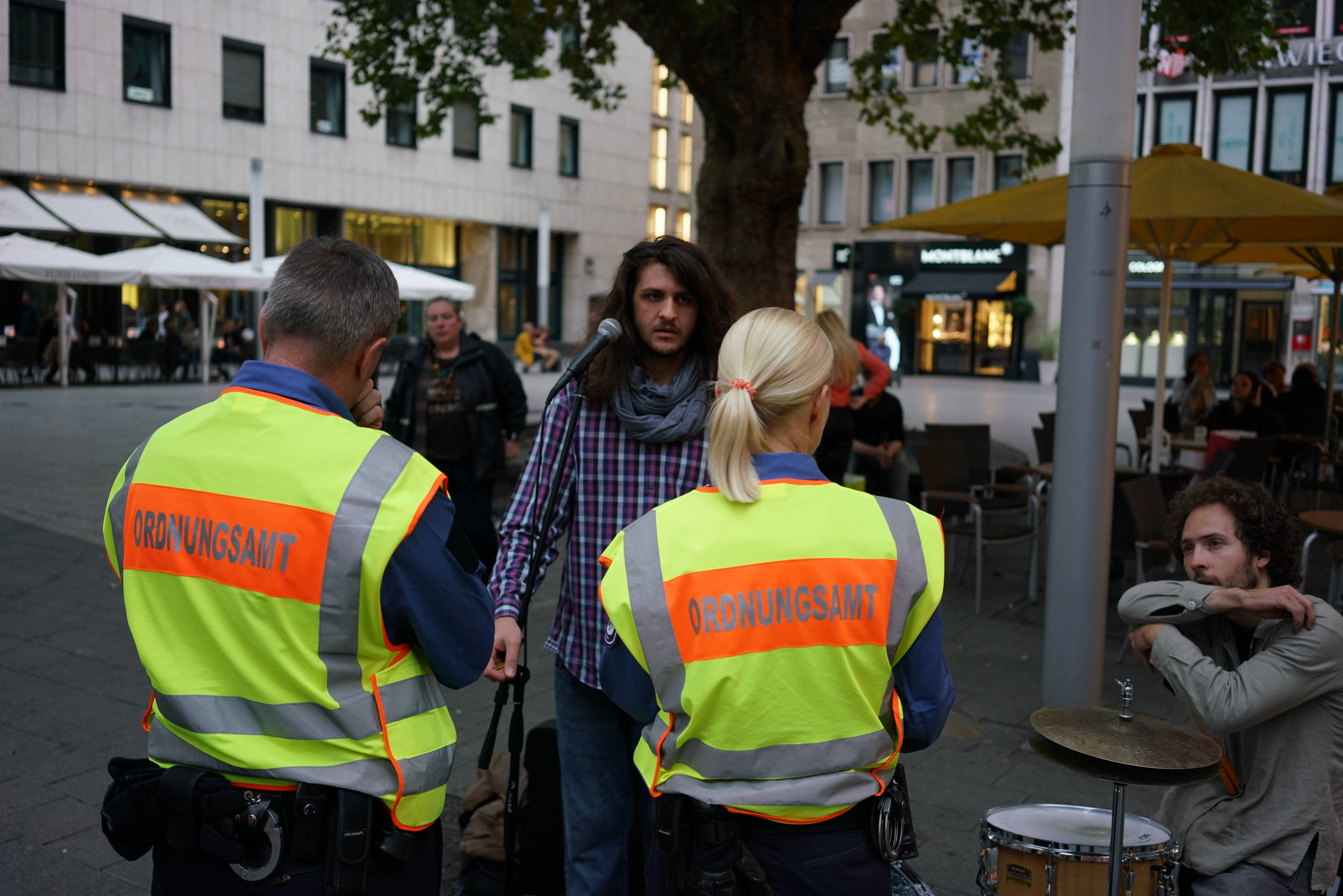 German "Ordnungsamt" officers and two street musicians in Cologne, Germany. Personality rights warning Although this work is freely licensed or in the public domain, the person(s) shown may have rights that legally restrict certain re-uses unless those depicted consent to such uses. In these cases, a model release or other evidence of consent could protect you from infringement claims.